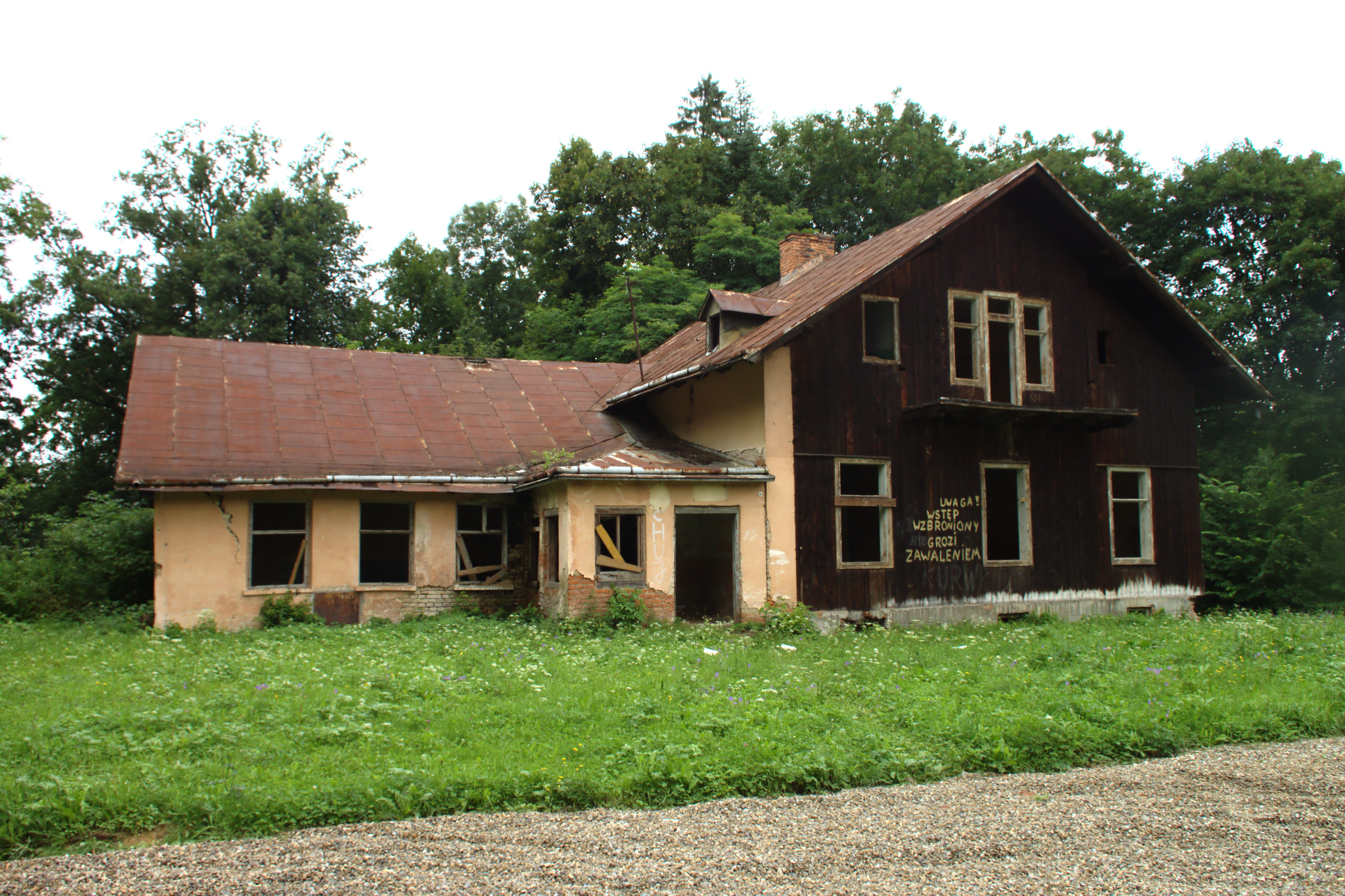 An abandoned house in Niebocko close to the local school building. Podkarpackie Voivodeship, Poland